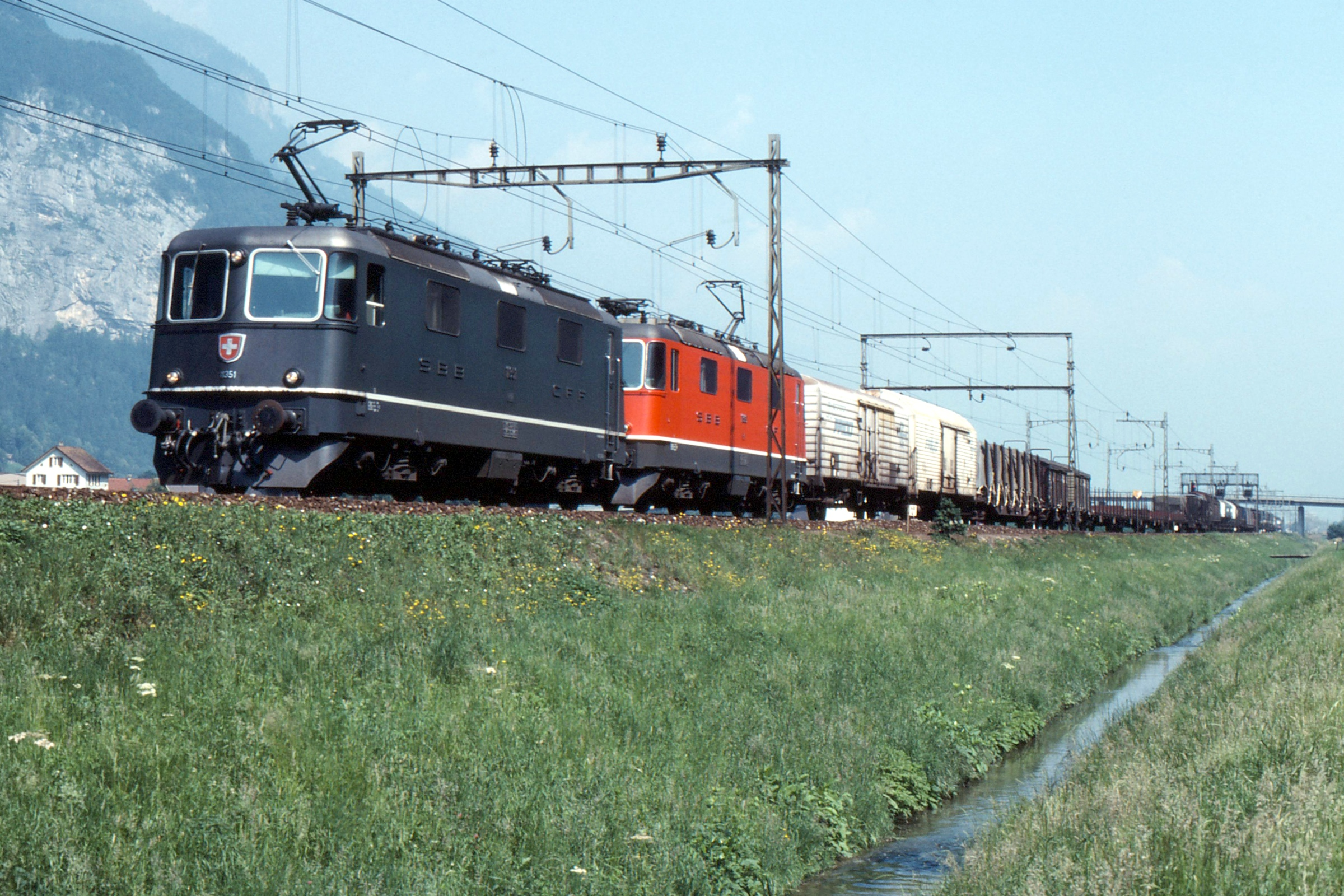 Swiss Railways Gotthard Re 4/4 Double traction; Front Re 4/4 III 11351